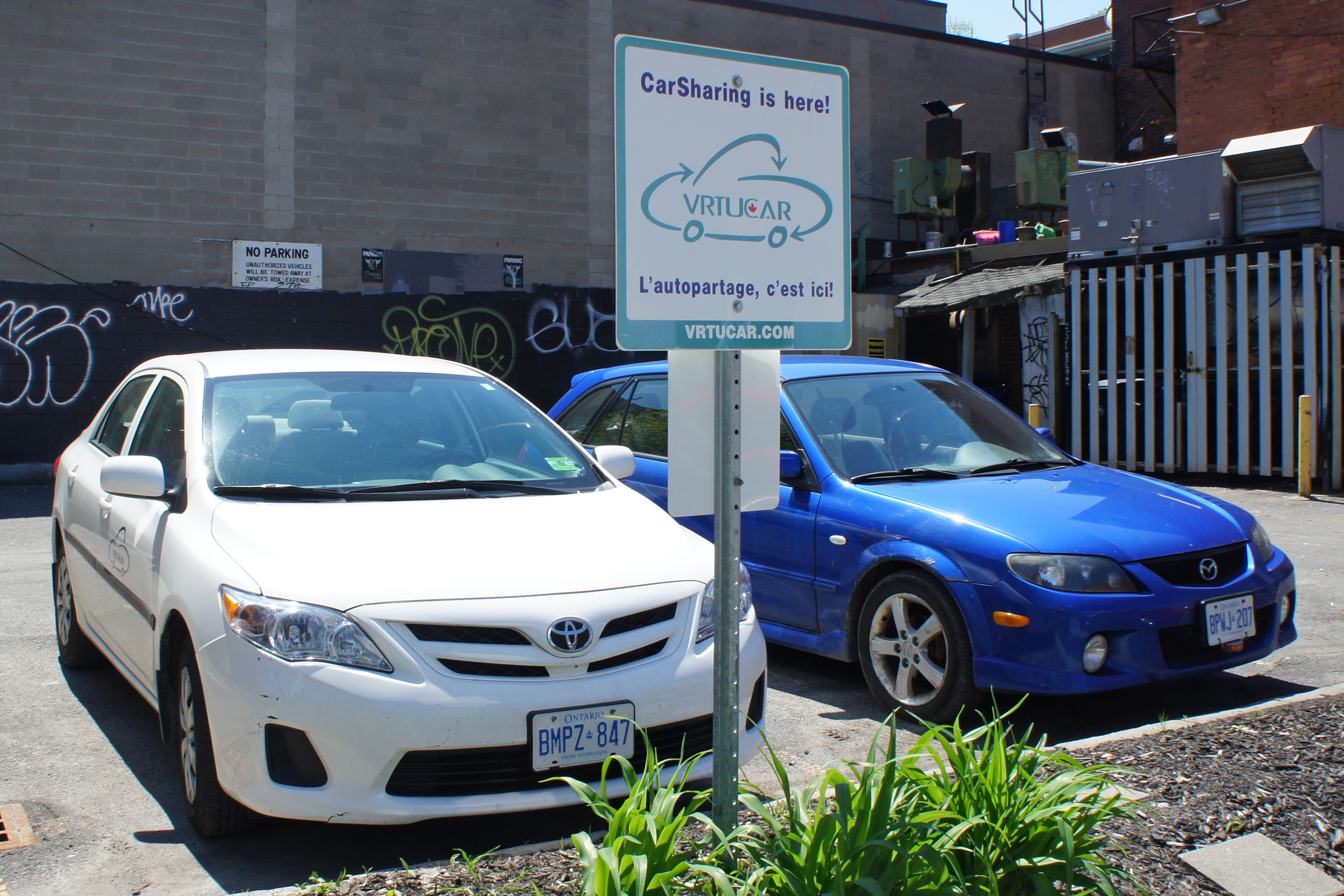 Pick-up point for VRTUCAR carsharing service near downtown Ottawa, Canada.